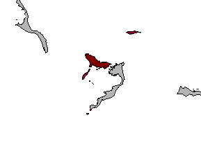 Created by Rarelibra for public domain use. Created using MapInfo Professional v7.5 and referencing various Bahamian map sources. Category:Maps of the Bahamas